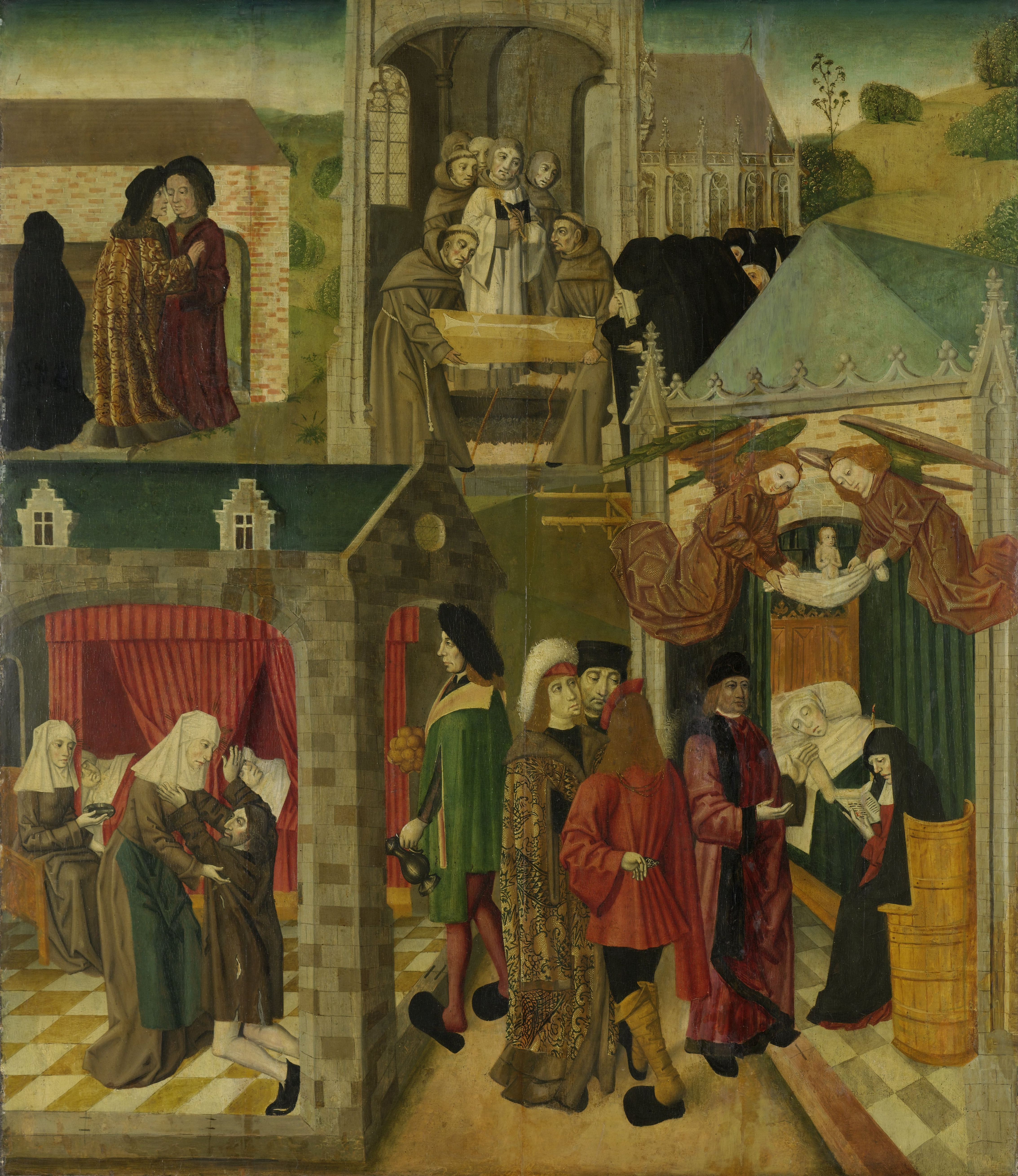 Scenes from the life of Saint Elizabeth of Hungary. In the background, left, Elizabeth is left in the care of the brother-in-law of her husband, Louis, before his departure to the Holy Land. On the foreground, left: After the death of Louis and expelled from Wartburg, Elizabeth receives a wounded man in her hospital in Marburg, where she tends the sick. To the right Elizabeth on her deathbed accompanied by Master Conrad and a praying nun. Two angels carry her soul to heaven. In the top her body is being burried by two Franciscan monks. Inner right wing of an altarpiece with scenes from the life of Saint Elizabeth and the St. Elizabeth's flood of 18-19 November 1421, the central panel of which is now lost. The two remaining wings have been sawn in two parts so that the interior (inv.nos. SK-A-3145 and SK-A-3146) and the exterior (inv.nos. SK-A-3147-A and SK-A-3147-B) are now separated.